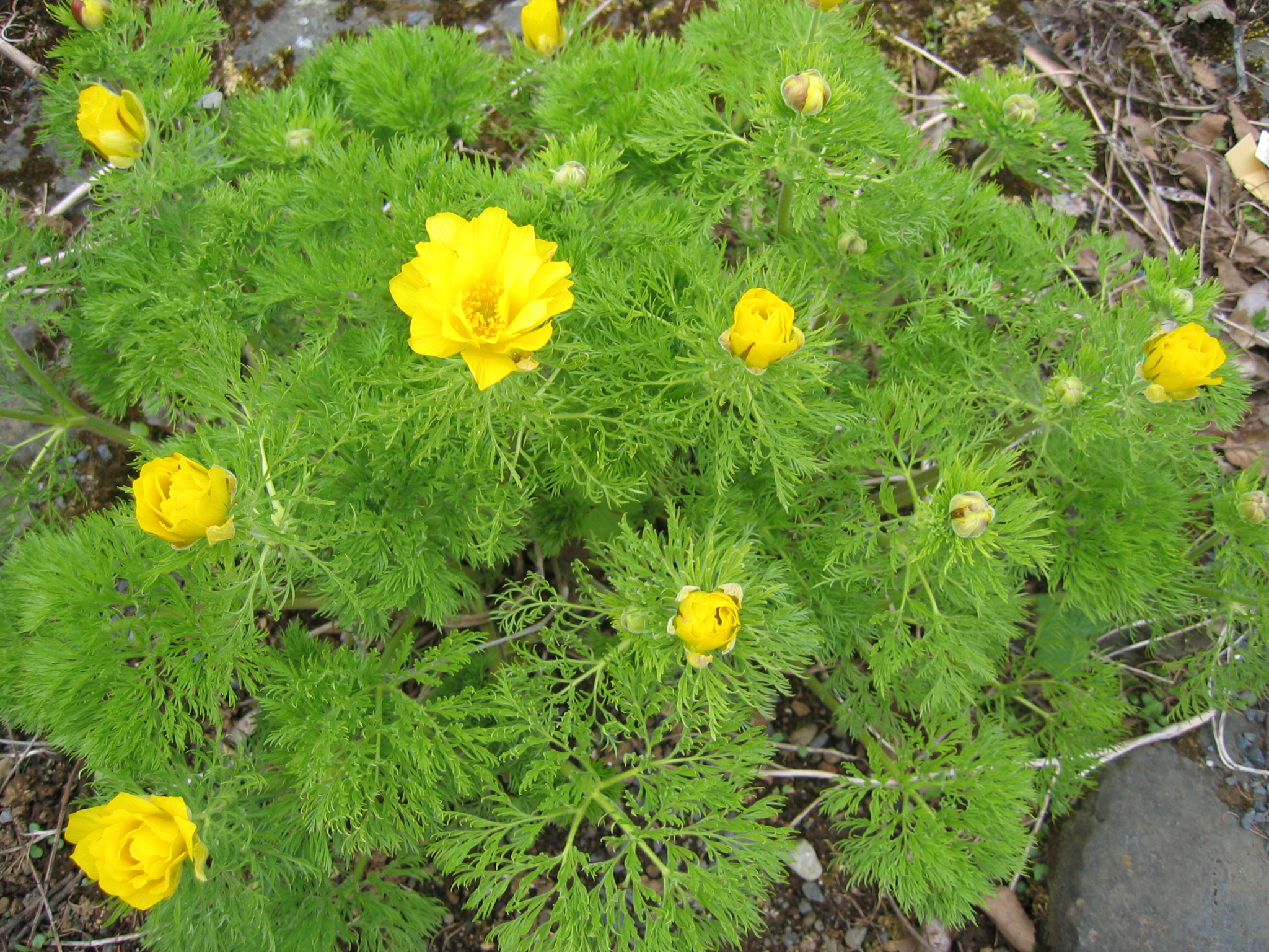 Photo taken in Grasagarður Reykjavíkur the Botanical Garden in Reykjavik, Iceland by Salvör